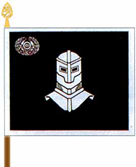 Colour of Armoured Brigade (Finland)